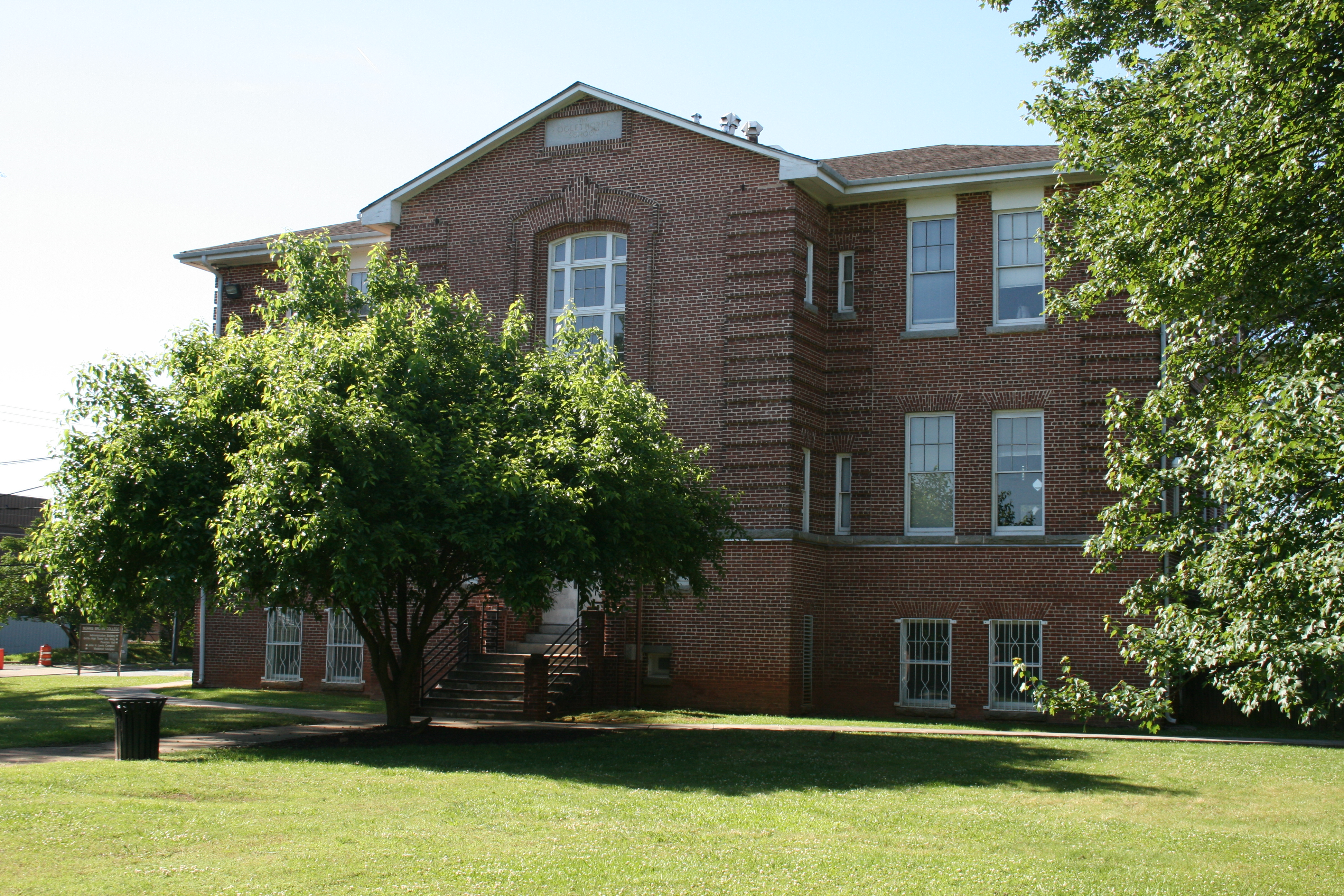 Clark Atlanta University Oglethorpe Hall